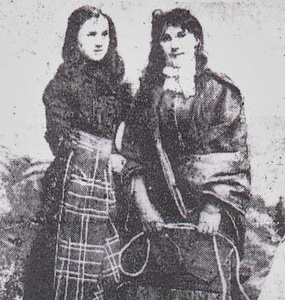 A picture of Jessie Ace and Margaret Wright